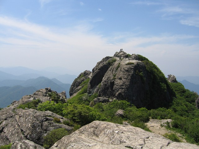 Taken by author, June 2004